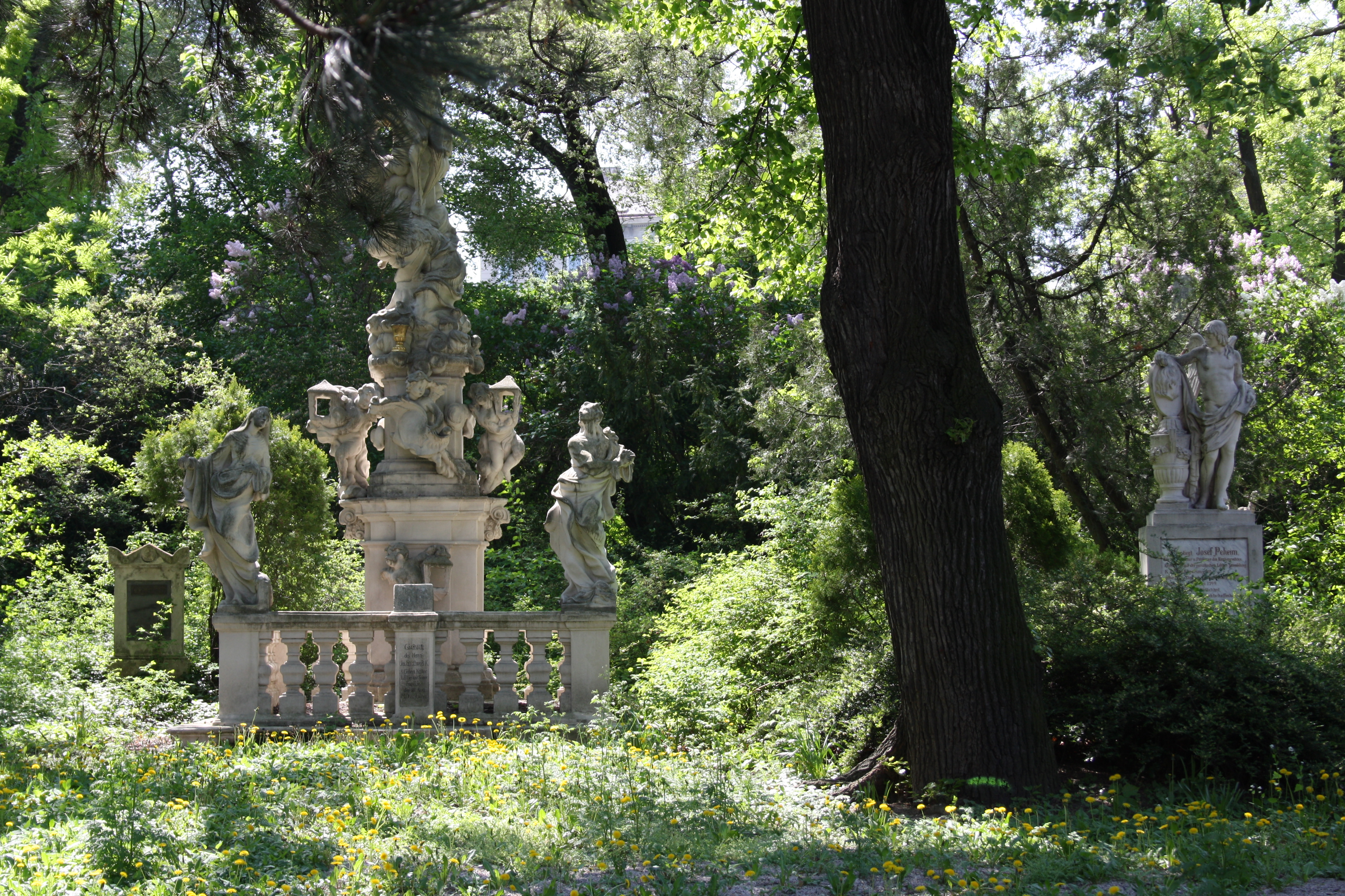 Calvary and gravestone at Schubertpark, 18th district of Vienna.